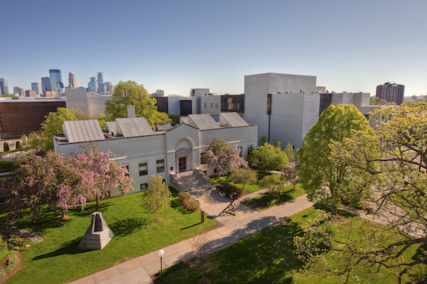 A bird's-eye-view of the campus of the Minneapolis College of Art and Design. This Wikipedia page currently has no images (other than its logo), so this will give a more complete idea of the college.